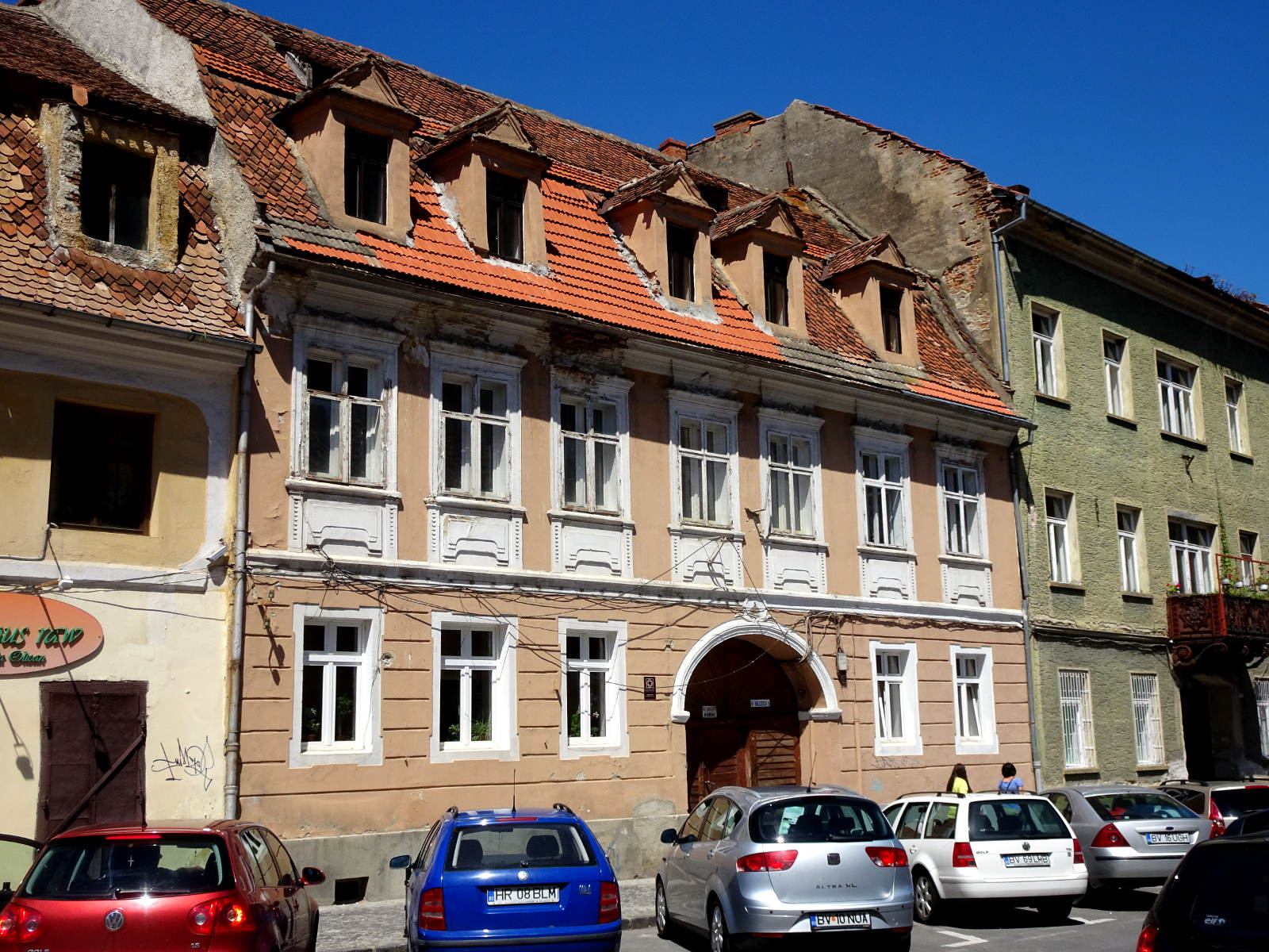 House in Bălcescu street, Brașov